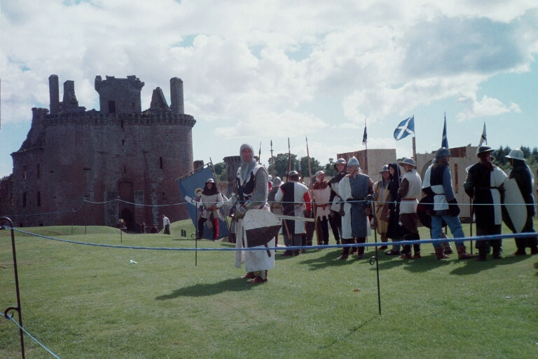 Re-enactment of the Siege of Caerlaverock Castle, Scotland